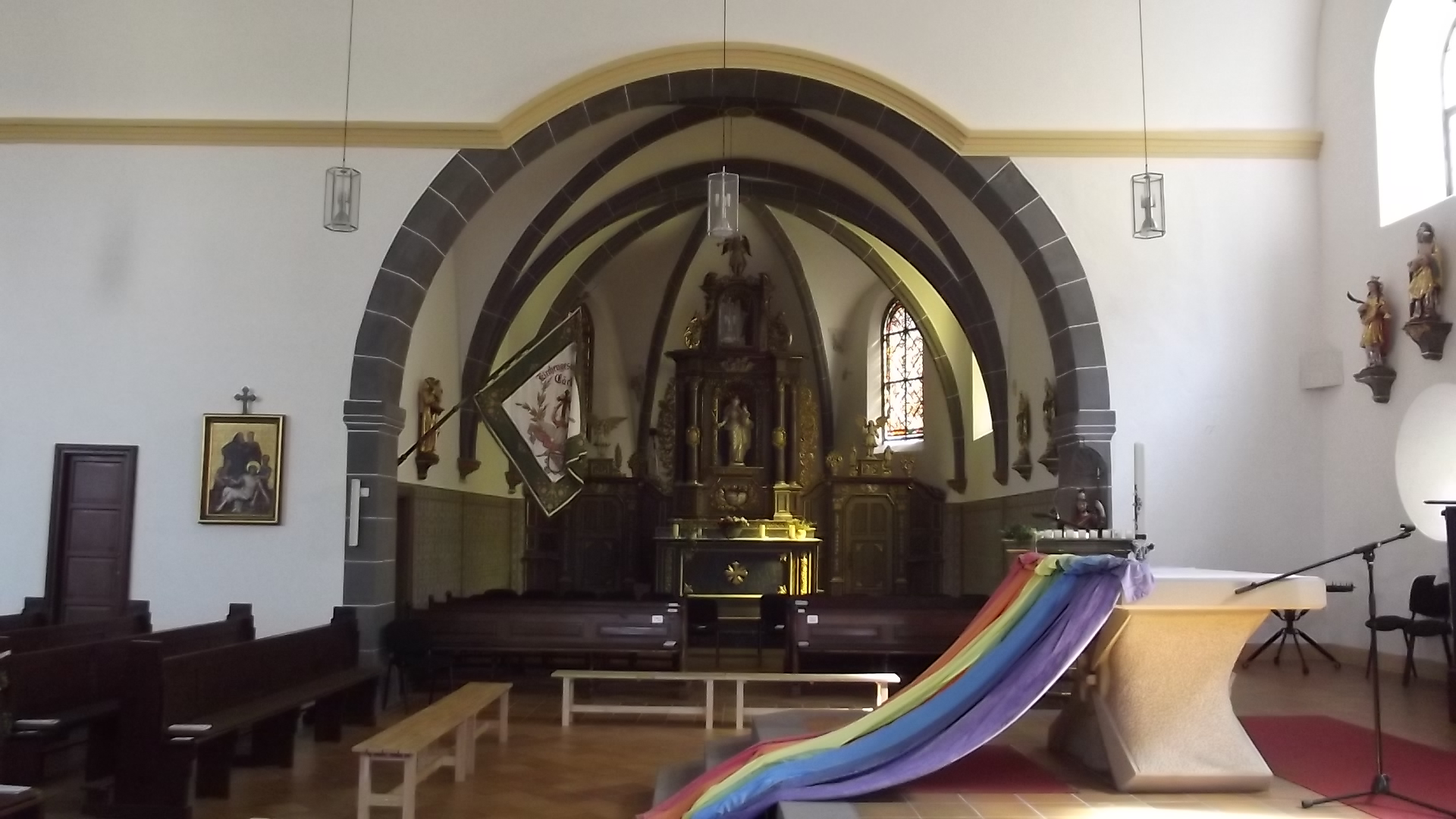 Interior of the roman catholic church in Perl, Saarland, Germany